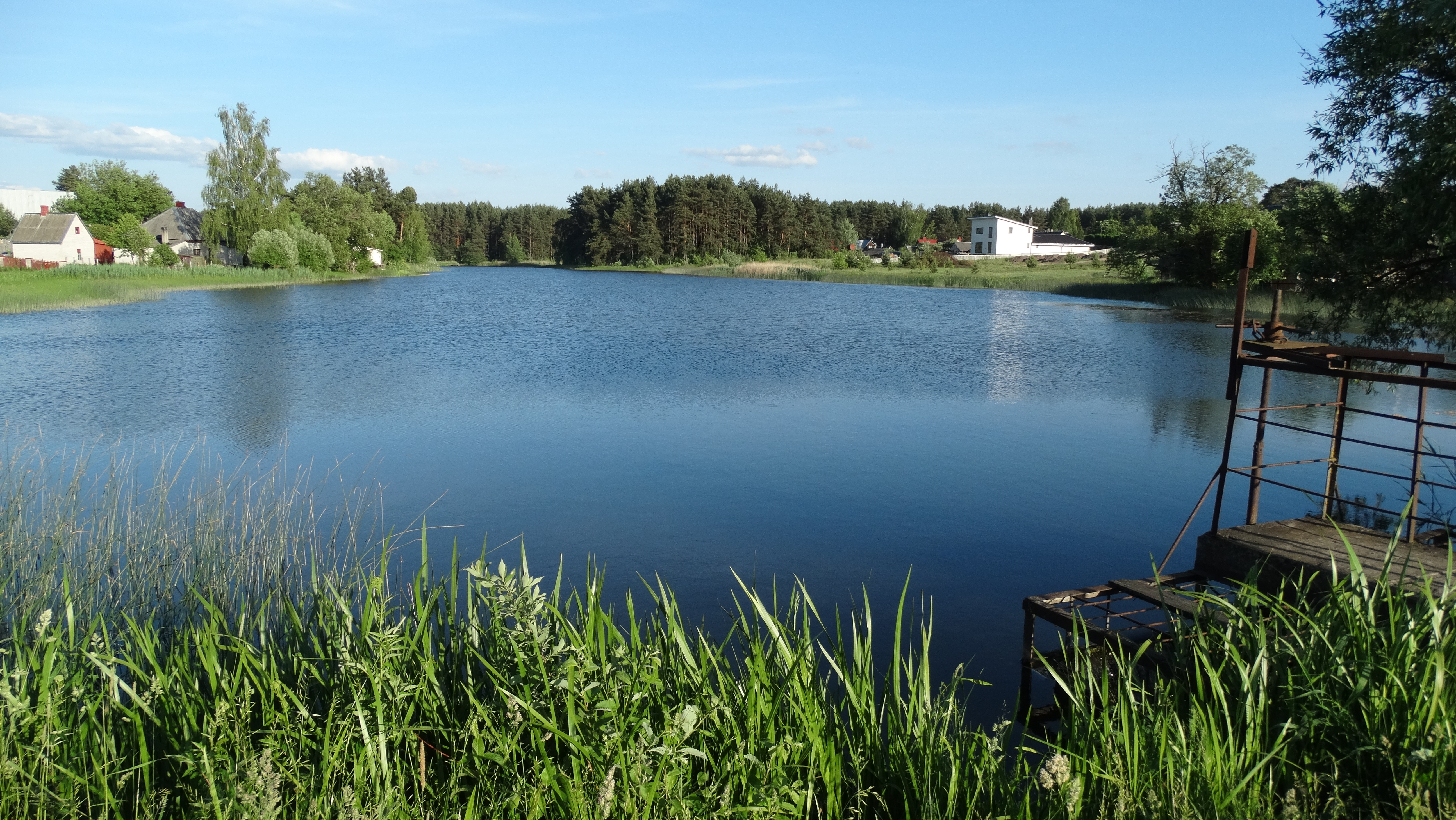 Pond on the Mukna River, Mickūnai, Vilnius District, Lithuania